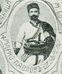 Portrait of IMARO member Marko Pavlov from Debar region